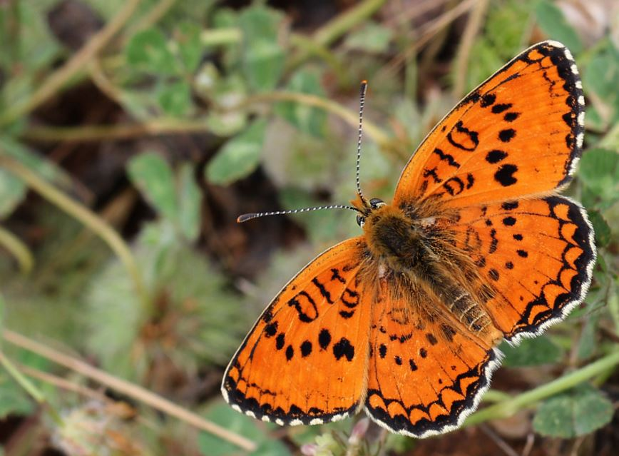 Freyer's fritillary (Melitaea arduinna). Osmaniye - Turkey.